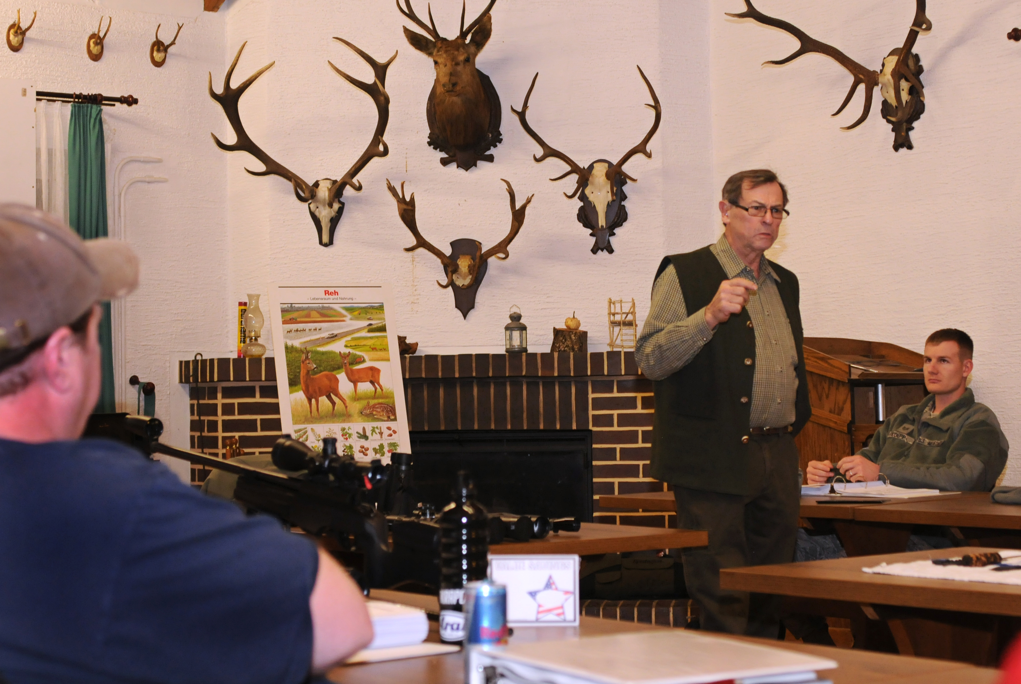 Retired U.S. Air Force Senior Master Sgt. Max Butler, German Hunting Course instructor, teaches weapon safety at the Rod and Gun Club, Vogelweh Military Complex, Germany, Jan. 25, 2011. The course teaches about German hunting laws, huntable animals, and animal conservation. (U.S. Air Force photo by Staff Sgt. Nathan Lipscomb)